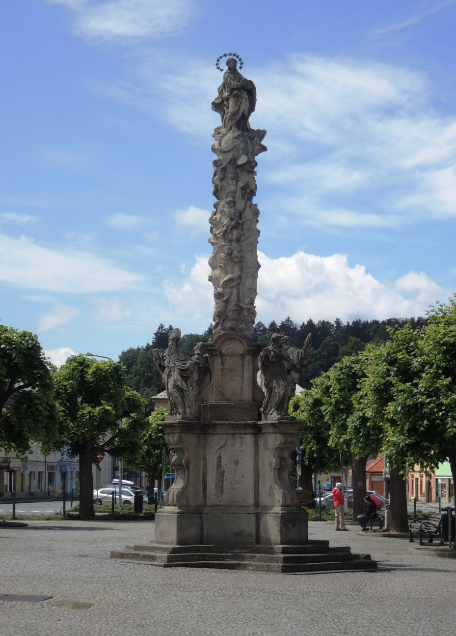 Ledeč nad Sázavou, Marian column (Jakub Teplý, 1770)